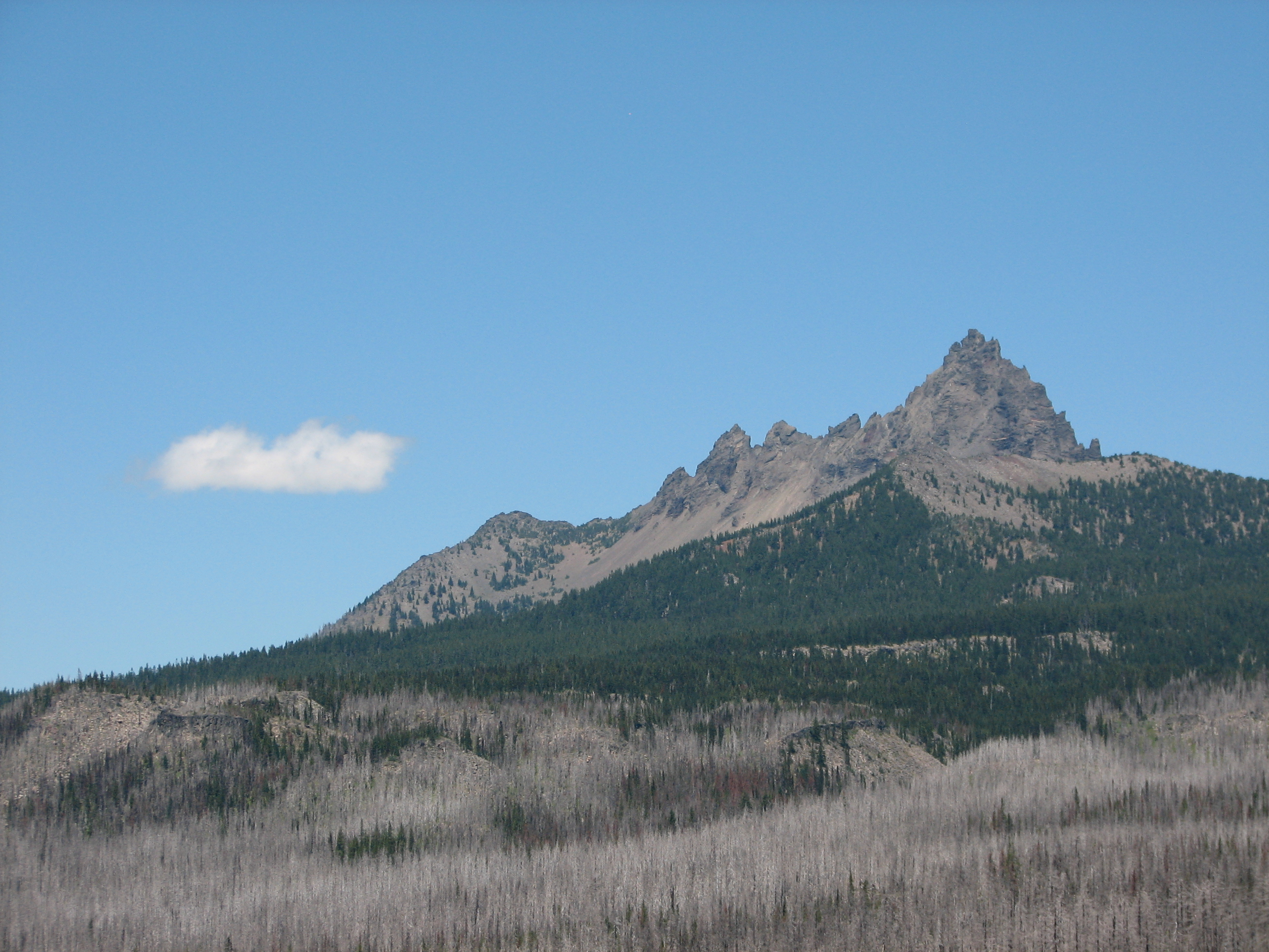 Cape Horn; Hogg Rock, Oregon